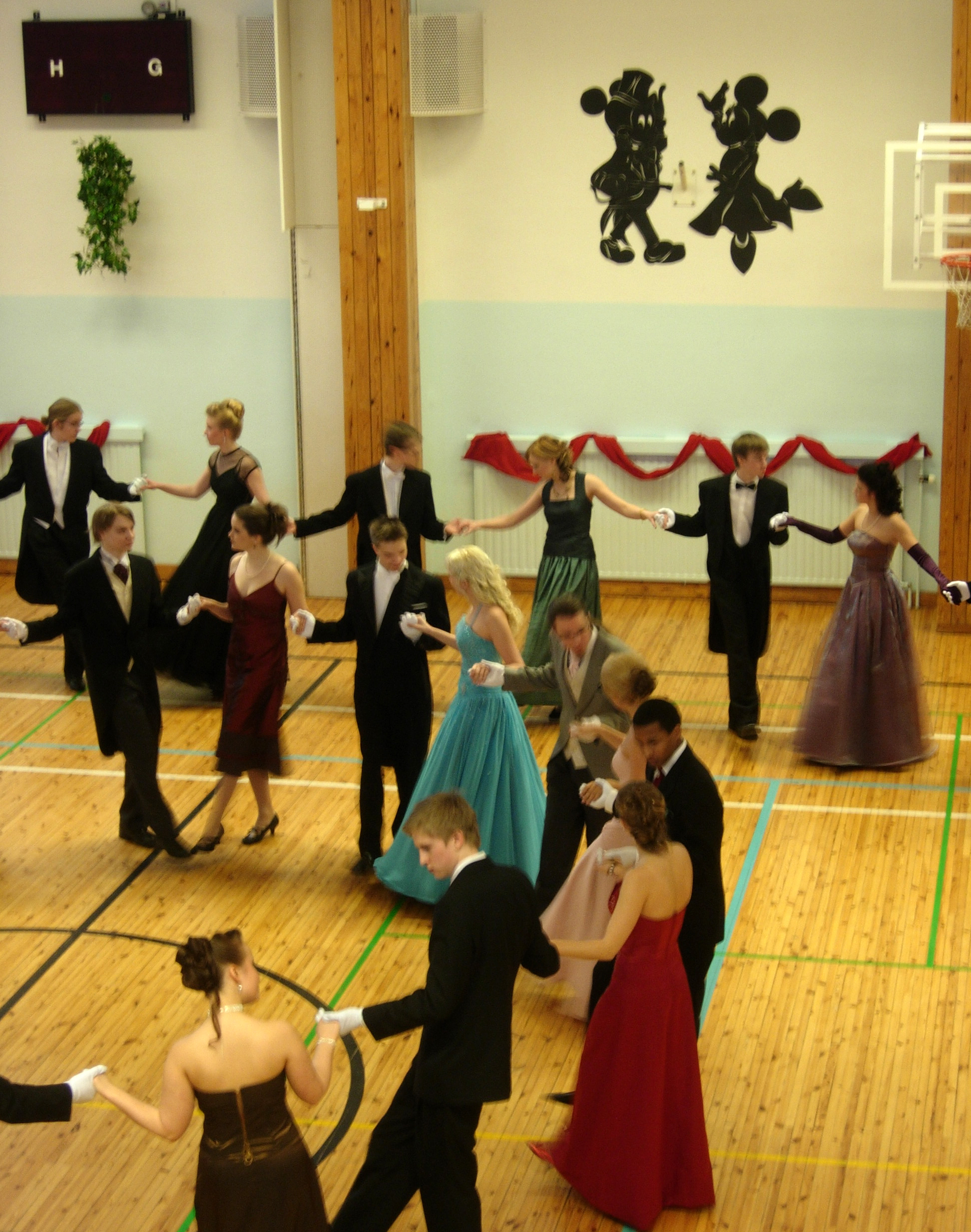 Formal dancing in the Vanhojen päivä|Vanhojen tanssit ball of the French School of Helsinki